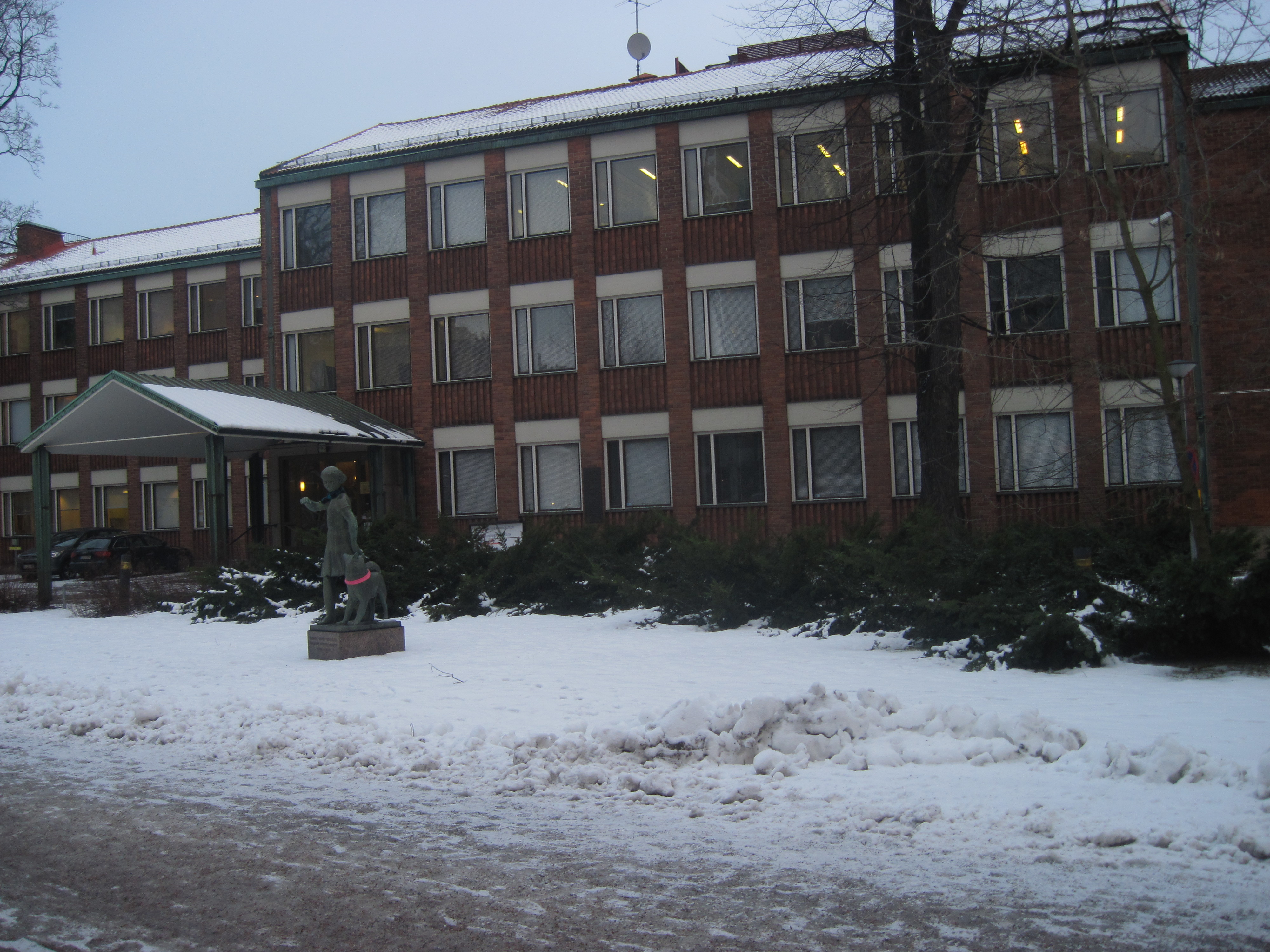 Former head office building of Suomen Sokeri, Mannerheimintie 15, Helsinki, Finland